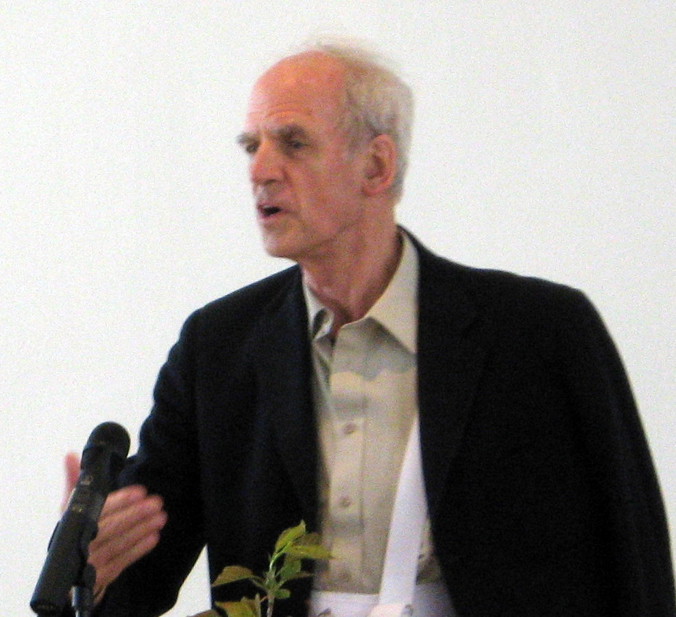 Canadian philosopher Charles Taylor giving a lecture at the New School in 2007. Charles Margrave Taylor, C.C., Ph.D., M.A., B.A., FRSC (5 novembre 1931, Montréal), est un philosophe québécois d'expression anglaise.